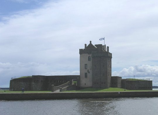 Broughty Castle. Broughty Castle sits imposingly at the mouth of the Tay. Built in 1496 on a rocky promontory, it has faced many sieges and battles. These have left their scars - marks made by cannon shot are still visible.